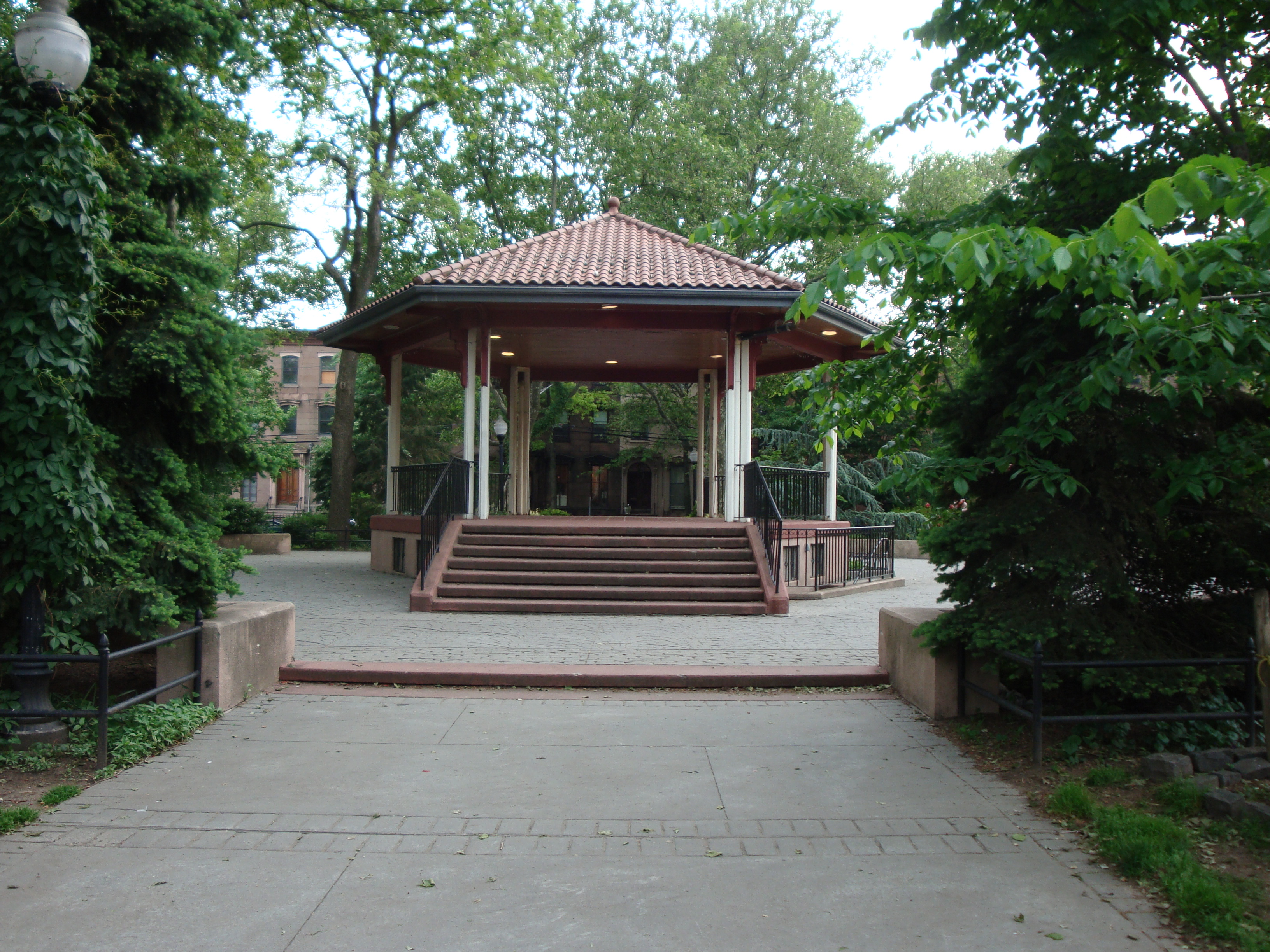 Gazebo located at the center of Van Vorst Park in Jersey City